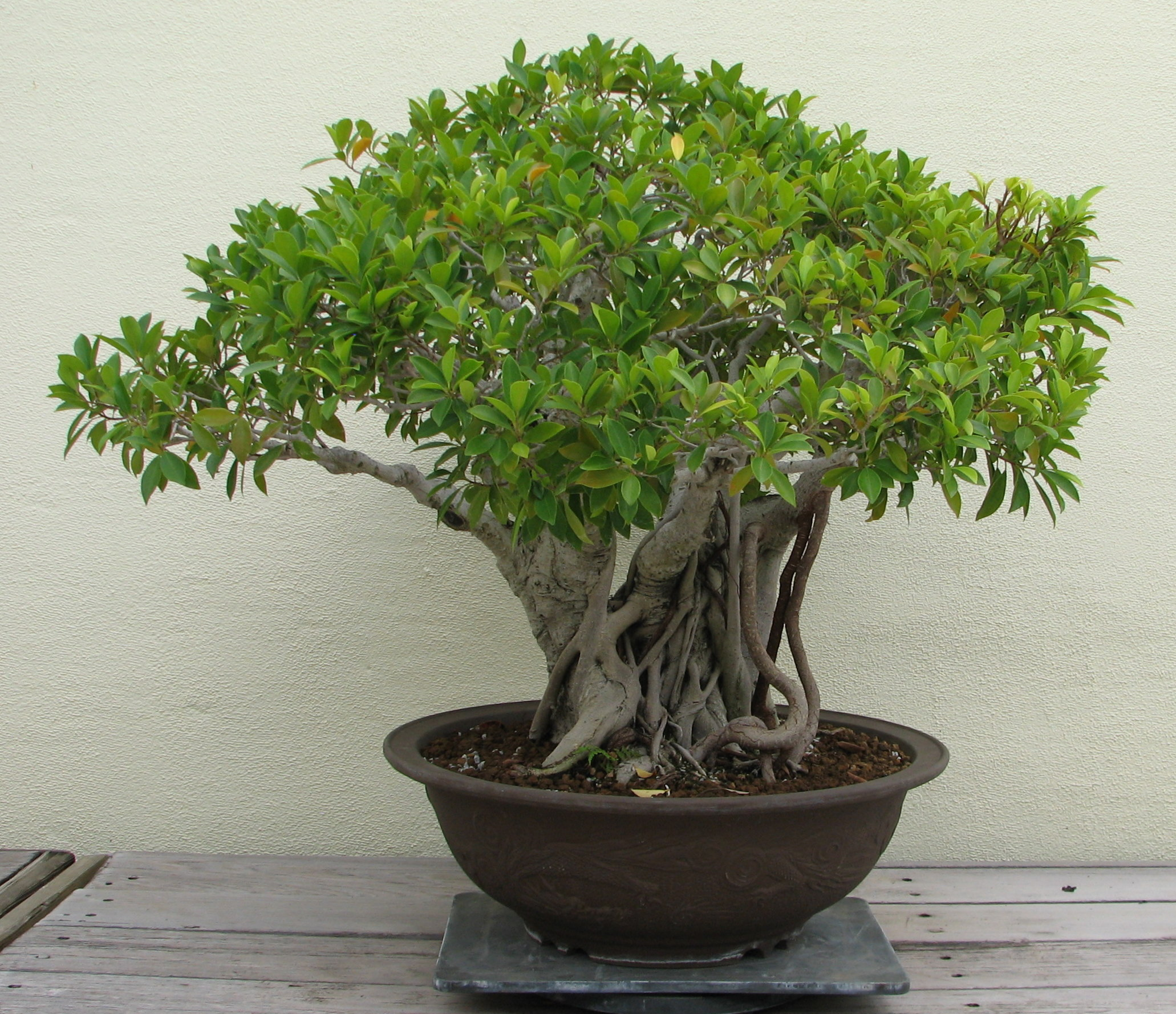 A Chinese Banyan (Ficus microcarpa) bonsai on display at the National Bonsai & Penjing Museum at the United States National Arboretum. According to the tree's display placard, it has been in training since 1906. It was donated by Shu-ying Lui.